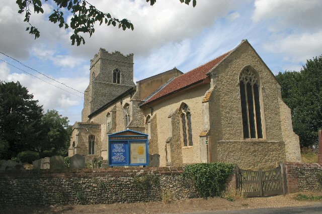 Church of St Andrew in Barningham, Suffolk, England. A Grade I listed medieval church.